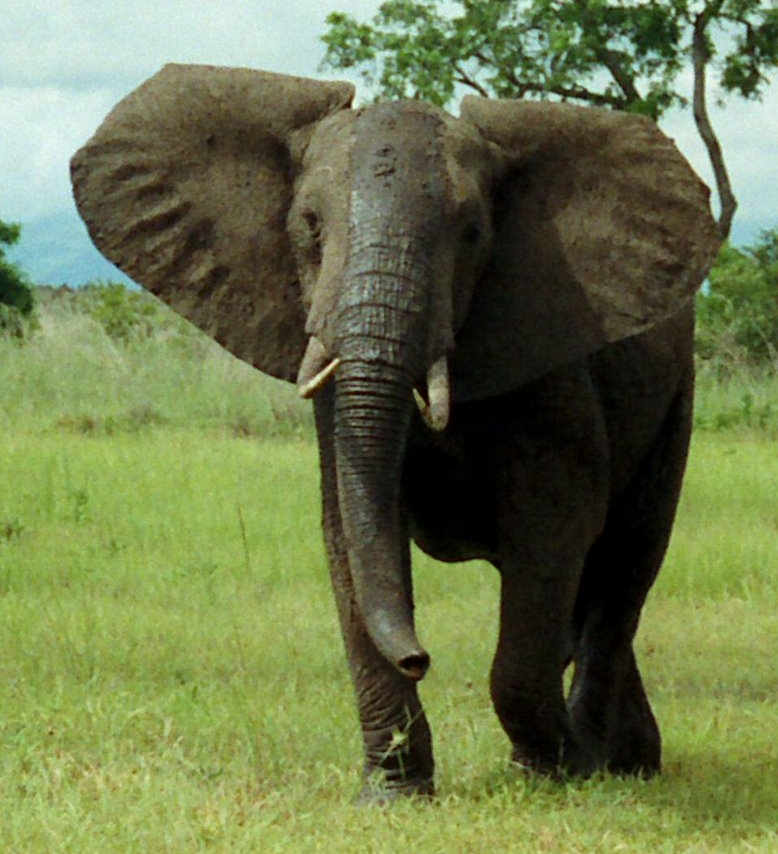 (African Bush Elephant in Mikumi National Park, Tanzania ) Image cropped by Mehmet Karatay. The original is here.